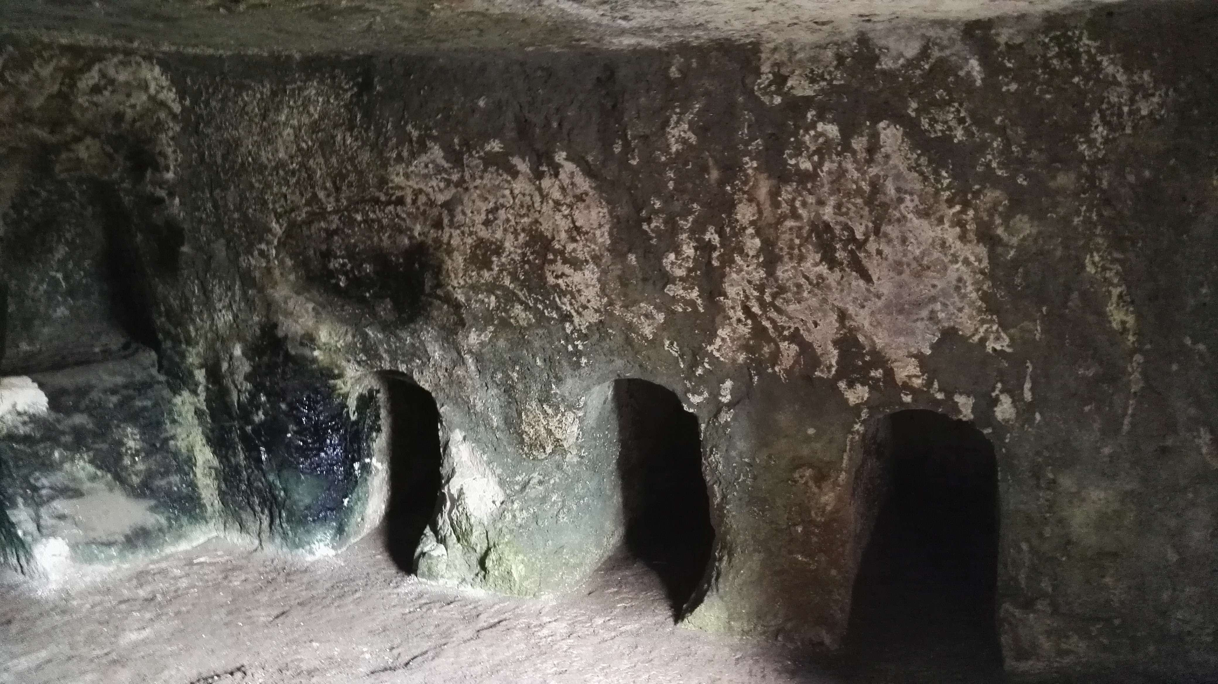 Mukata Abud - 2nd Temple period Jewish necropolis near the West Bank village Abud.